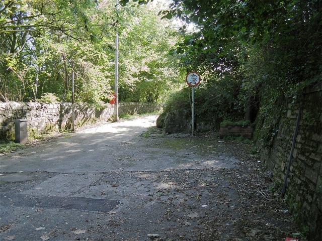 Landslide on Graig Road between Godre'r Graig and Ystalyfera In 1963 part of Mynydd Allt-y-grug slipped down over this section of road sweeping away all the houses either side of it. The road has only ever been reopened as a much narrower path for light foot traffic. In the photo you can see how much the landslide has reduced the width of the road. However this is not the whole story: a few hundred yards further back the road is a third wider again with a pavement on both sides. The landslide is thought to have been triggered when a water main supply was accidentally ruptured, allowing water between layers of otherwise impermeable rock. Even now at the southwest end of the landslip there are extra drainage pipes running down the mountain to help prevent further occurrences.